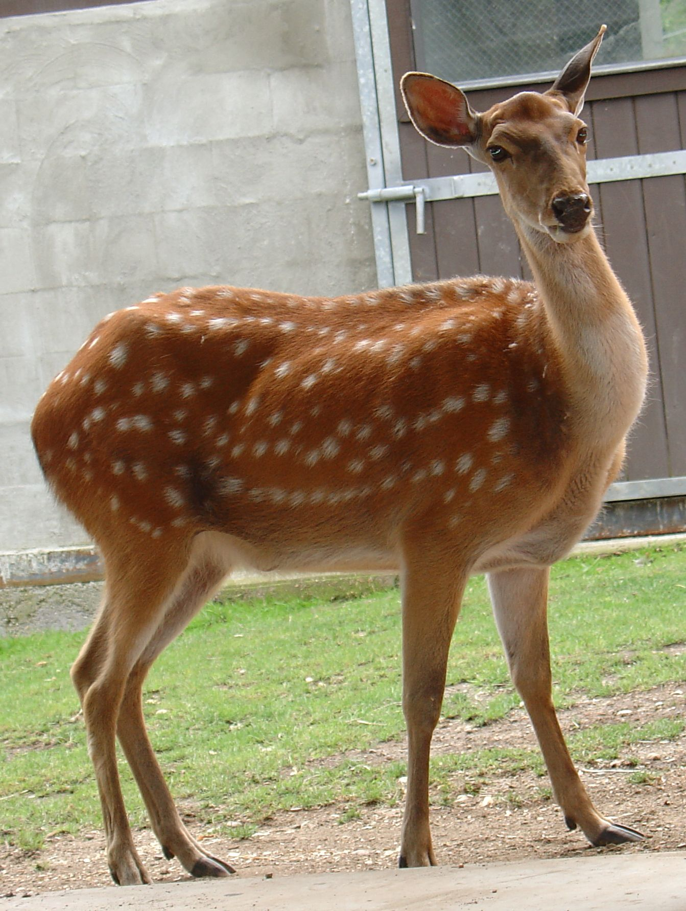 "Formosan Sika Deer, in captivity, June 2006. Photo taken at Cougar Mountain Zoo in Issaquah, Washington. At the zoo its pen is labeled "Formosan Elk (Cervus nippon taiouanus)" and visitors are told there are 150 living animals remaining. Copyright (C)2006 by me. I took this photo and hereby license it under the GFDL."